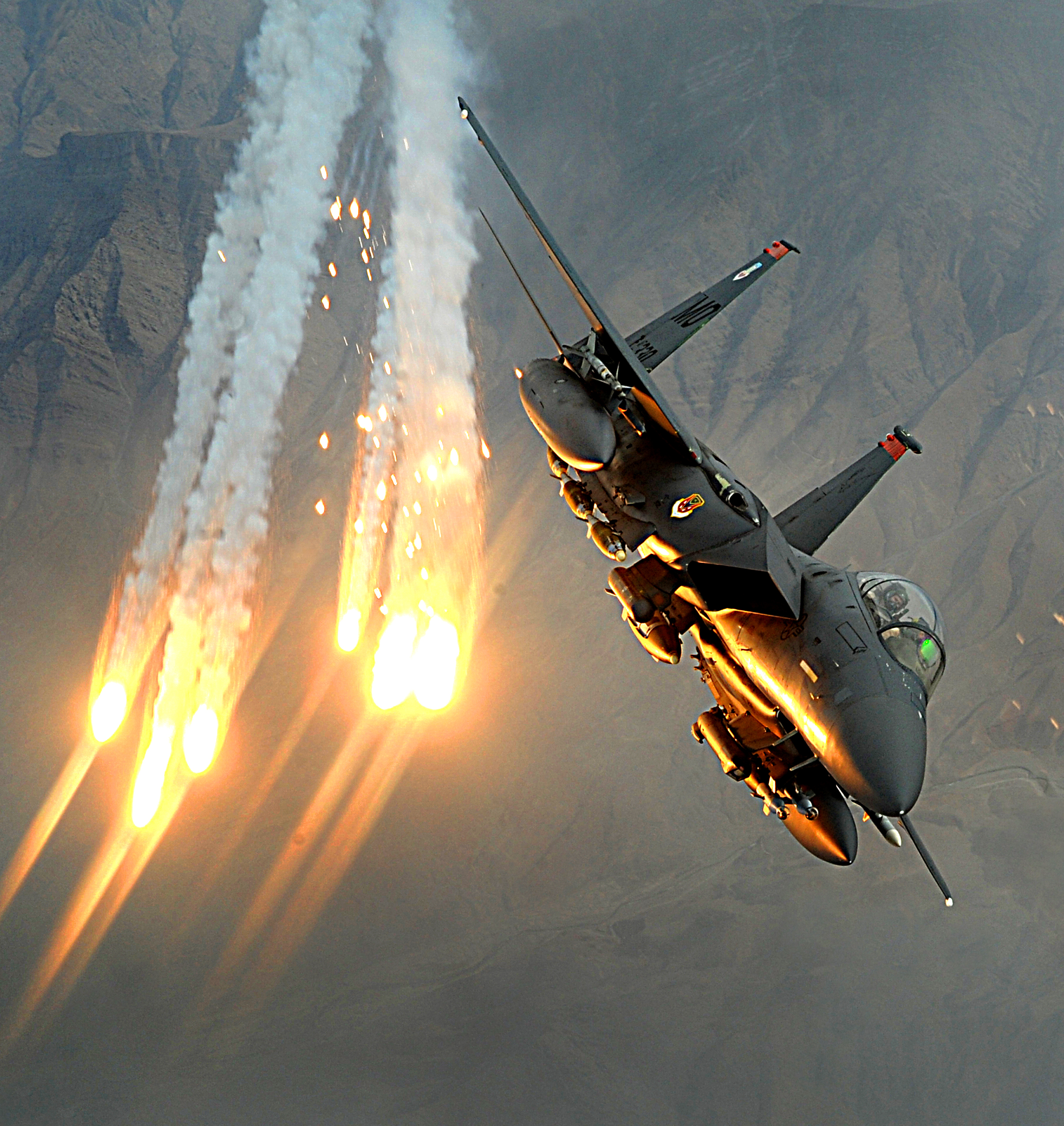 An F-15E Strike Eagle from the 391st Expeditionary Fighter Squadron at Bagram Air Base, Afghanistan, launches heat decoys Dec. 15 during a close-air-support mission over Afghanistan. (U.S. Air Force photo/Staff Sgt. Aaron Allmon)